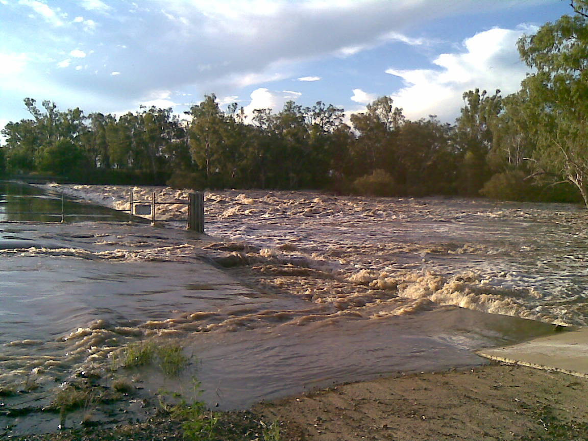 The Dawson River at the Moura Weir (7 260 ML) - overflowing after heavy rains, approx 8 km west of the township of Moura, Queensland.